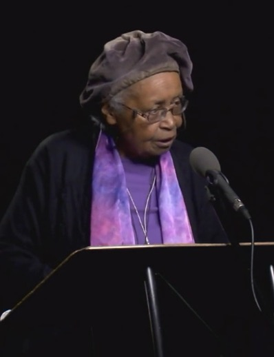 Ruth Edmonds Hill shares stories of Women of Courage.